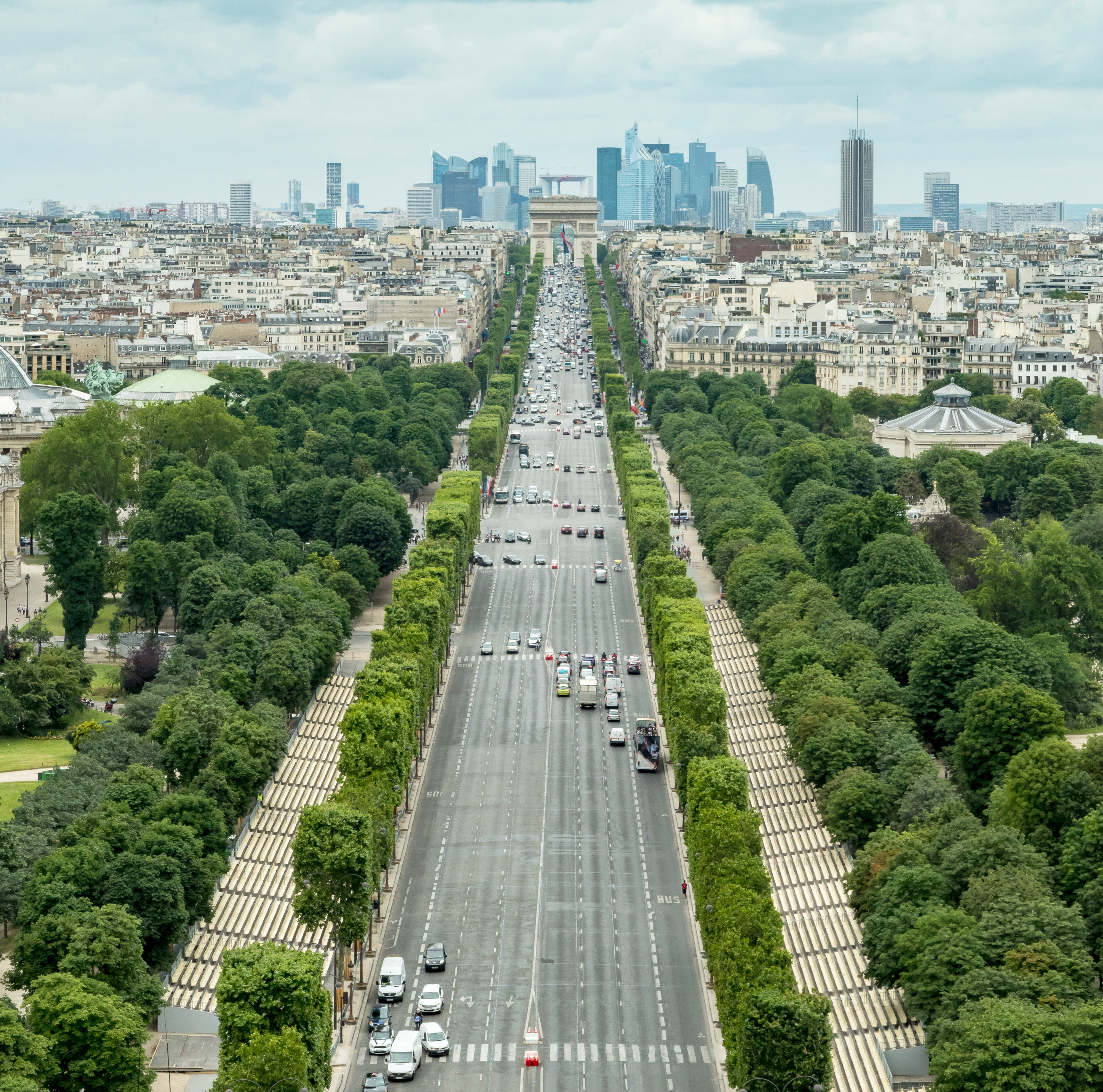 Champs Elysee Paris